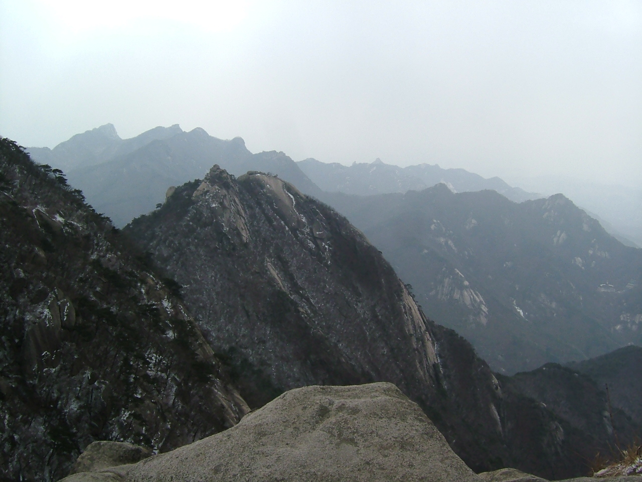 This is a photo taken from near the top of Mt Baekundae in the Bukhansan National Park, South Korea. I took this photo with a digital camera on 28th March 2006.